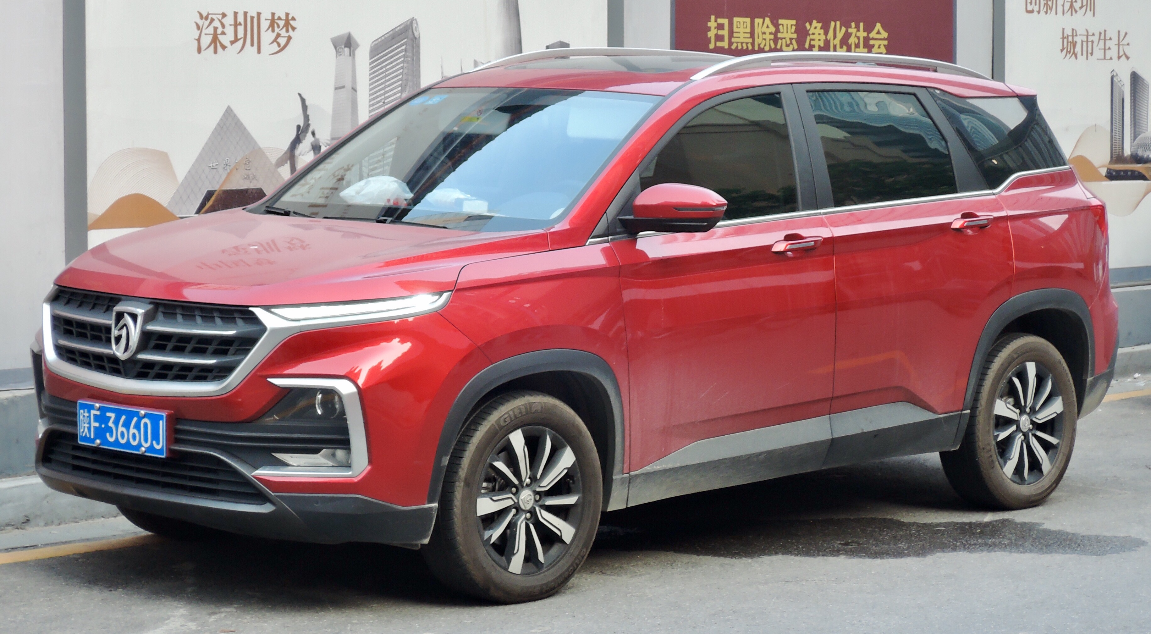 A red Baojun 530 in Shenzhen, Guangdong province, China 中文（中国大陆）: 一辆红色的宝骏530，摄于中国广东省深圳市。